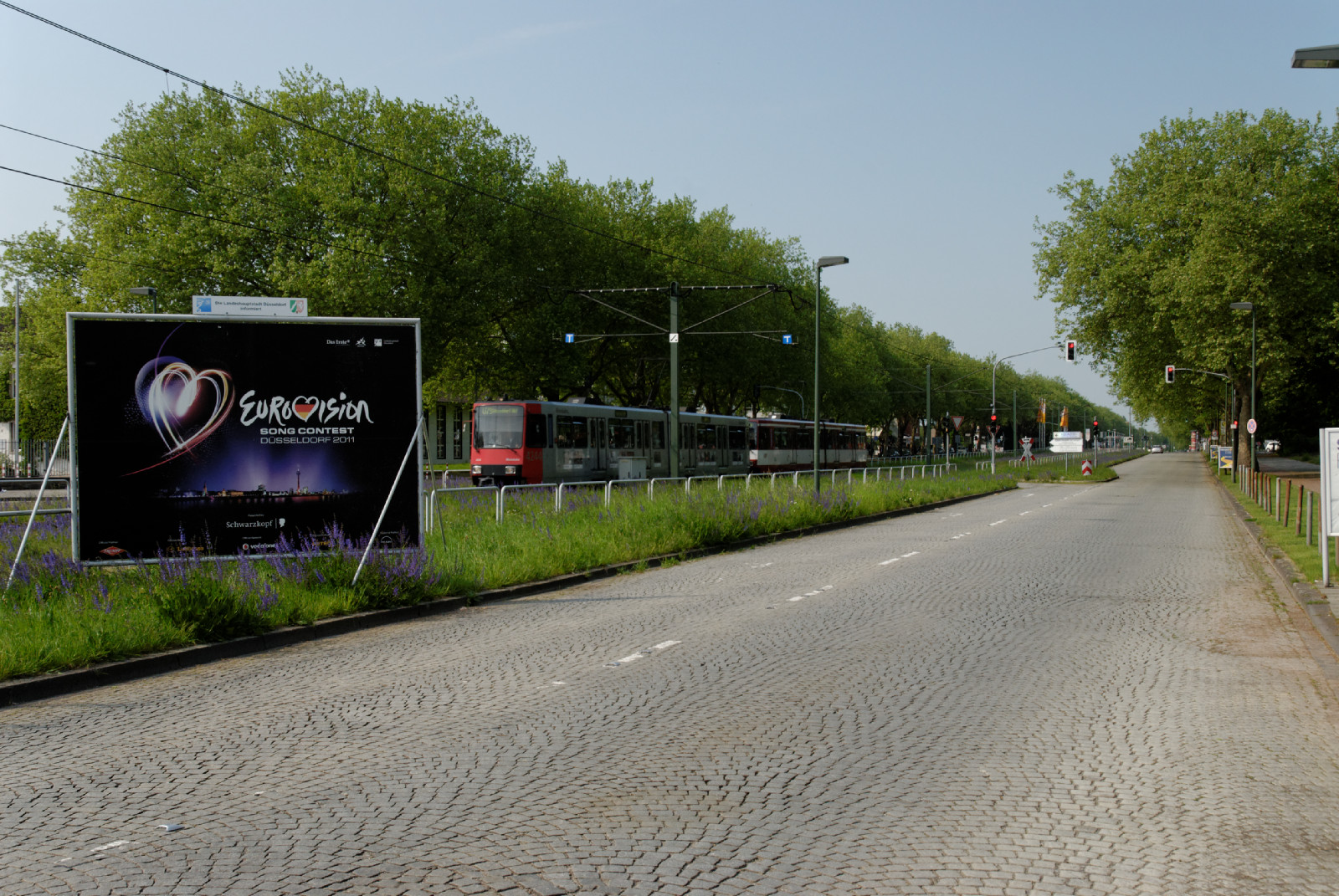 Kaiserswerther Straße in Düsseldorf-Golzheim, Germany This is a photograph of an architectural monument.